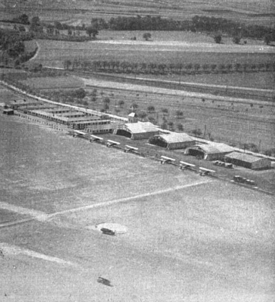 Weissenthurm Airdrome Germany 1921